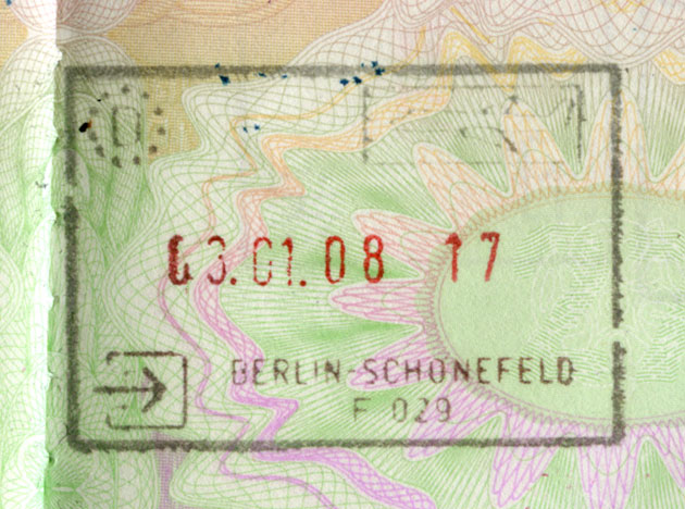 German passport stamp from Berlin Schönefeld Airport